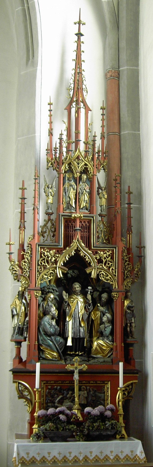 Side altar on the right side of St. John's church in Zolling